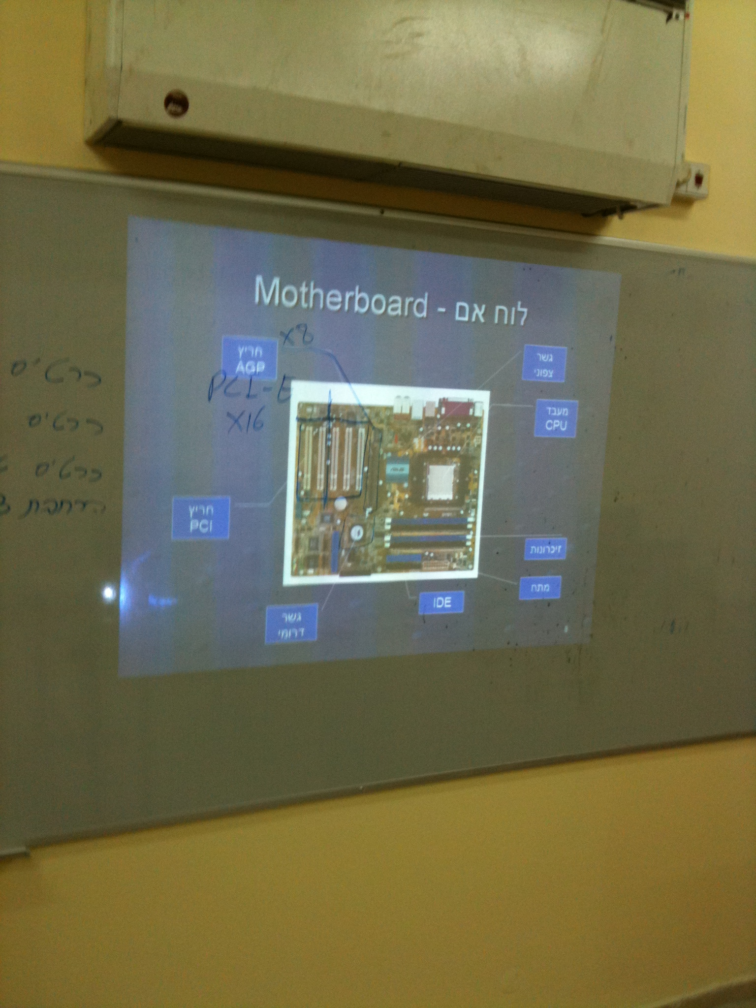 A while blackboard and slid screen